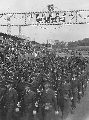 Military parade celebrating establishment of NSF(National Safety Force of Japan)